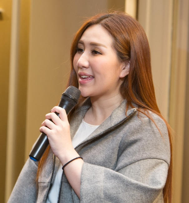 Sabrina Ho Chiu Ying speaks at Poly Auction Macau event opening in 2016